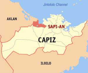 Map of Capiz showing the location of Sapi-an